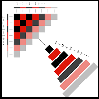 sissro